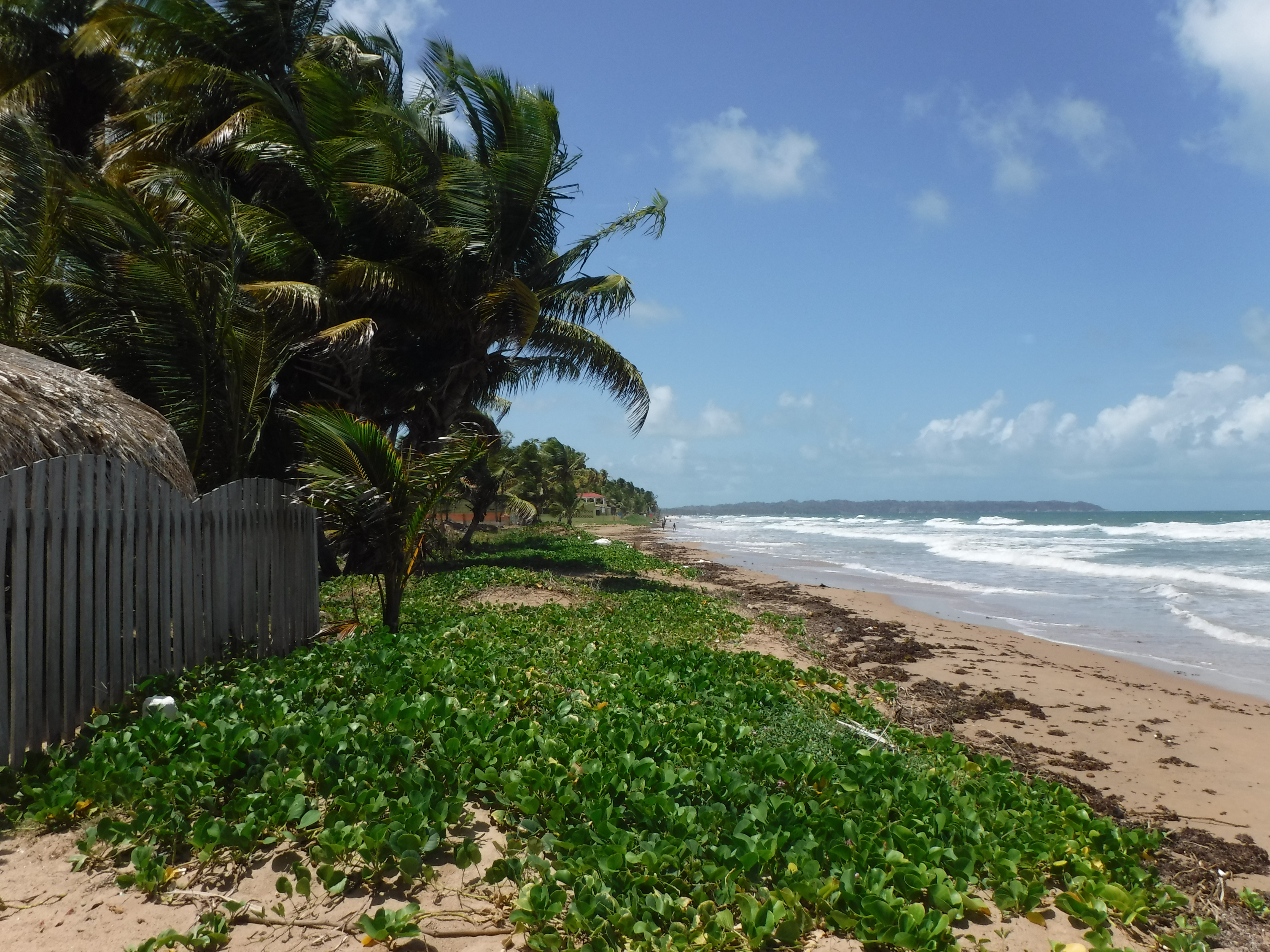 This is a photo of the thick vegetation that covers and lines the shore of Mayaro Beach, Trinidad and Tobago.